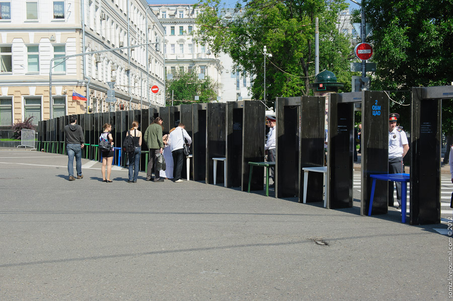 Two hours before the campaign of opposition. June 12 was held in Moscow next protest demonstration of opposition. On the march sounded slogans against the government of Putin and his regime. Marsh took place against the backdrop of interrogations the leaders of the opposition movement and the next day after were a large-scale searches.